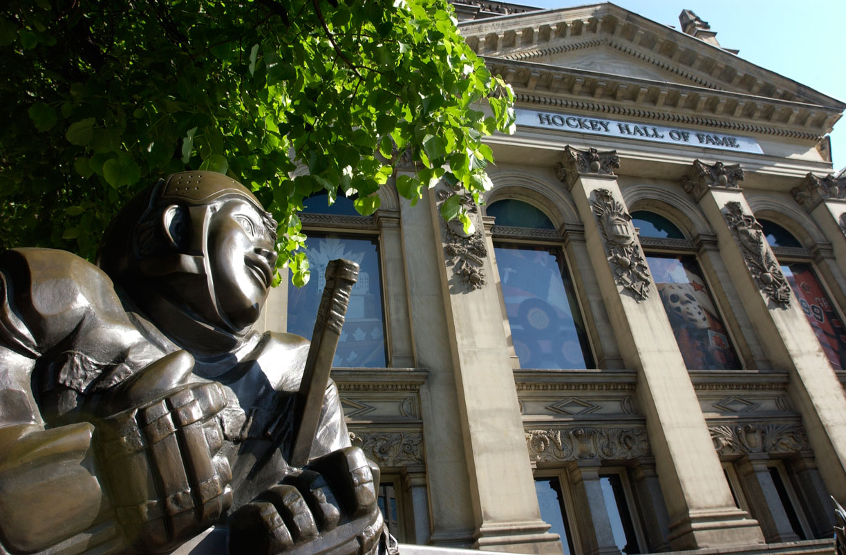 Toronto: Hockey Hall of Fame